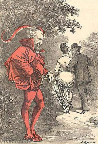 Caricature:Roscoe Conkling as Mephistopheles Centerfold of Puck 3 October 1877 Drawn by Joseph Keppler Caption: Conkling as Mephistopheles Unto that Power he doth belong Which only doeth Right while ever willing Wrong. – Goethe's Faust. The other figures in the picture are Rutherford B. Hayes and a woman labeled as "Solid South". The cartoon is about the Compromise of 1877 12"w x 18"h